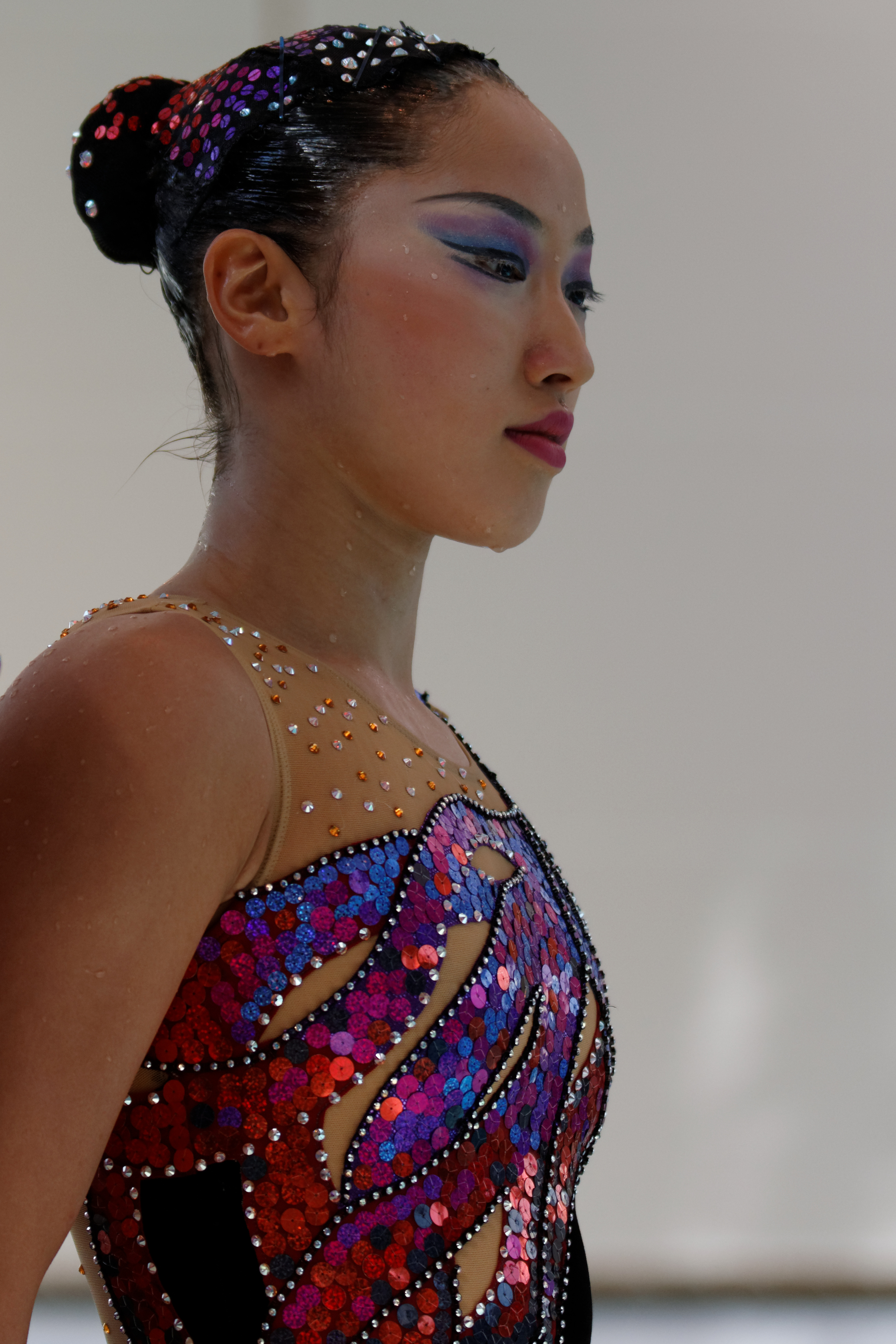 Yumi Adachi and Yukiko Inui, duet technical routine, Open Make Up For Ever.